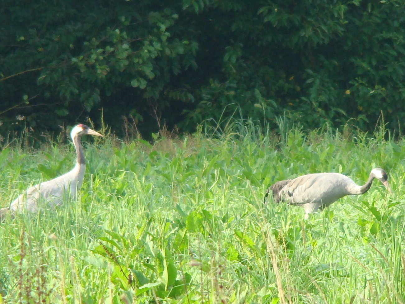 Two Common Cranes foraging for food in the vicinity of Oldendorf, Lüneburg Heath, Lower Saxony, Germany